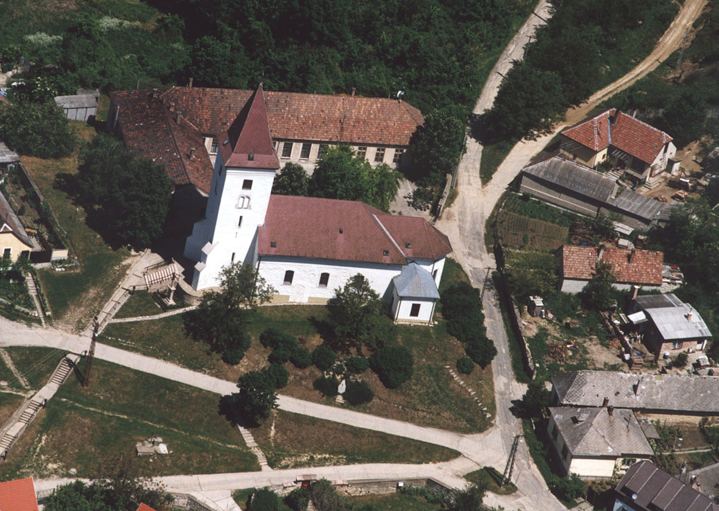 Bajót, Hungary, aerial photography